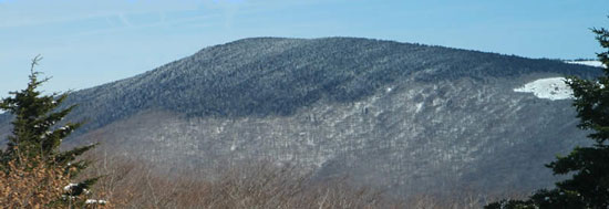 Photo of Mount Rogers in winter. Taken from Jefferson National Forest page on Mount Rogers at [1].